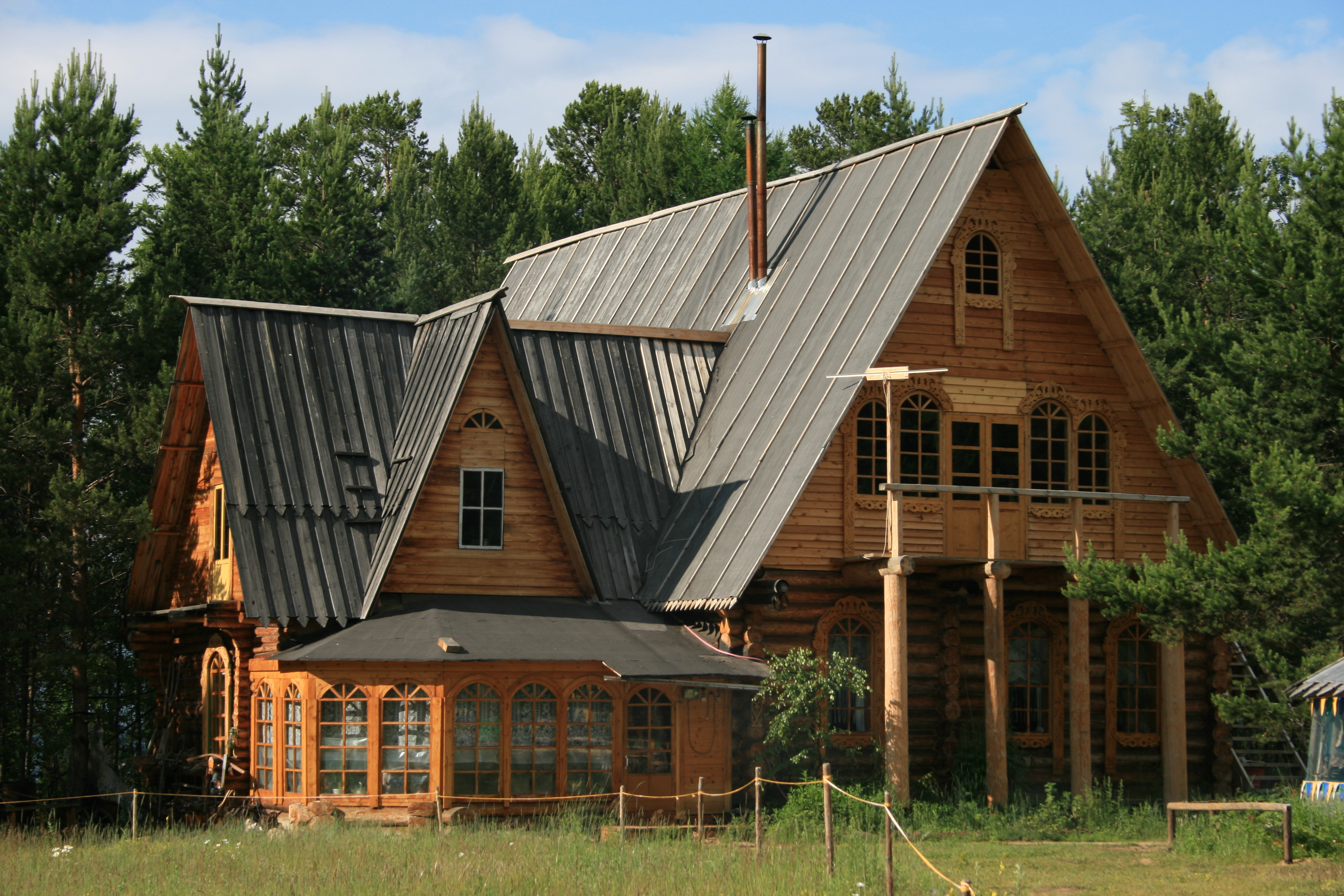 Shelkovnikov's Manor in ethnographic park "Svetlaya Polyana". Maximikha, Barguzin district, Buryatia